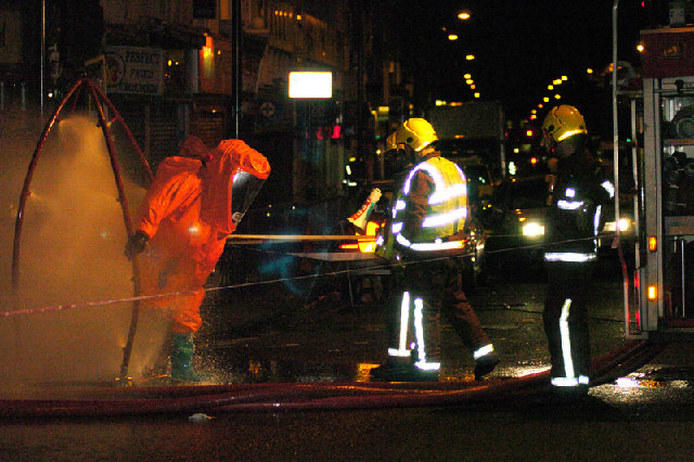 Decontamination after incident at Archway. An accident involving a lorry at Archway roundabout caused a chemical spill which had to be decontaminated by London Fire Brigade.